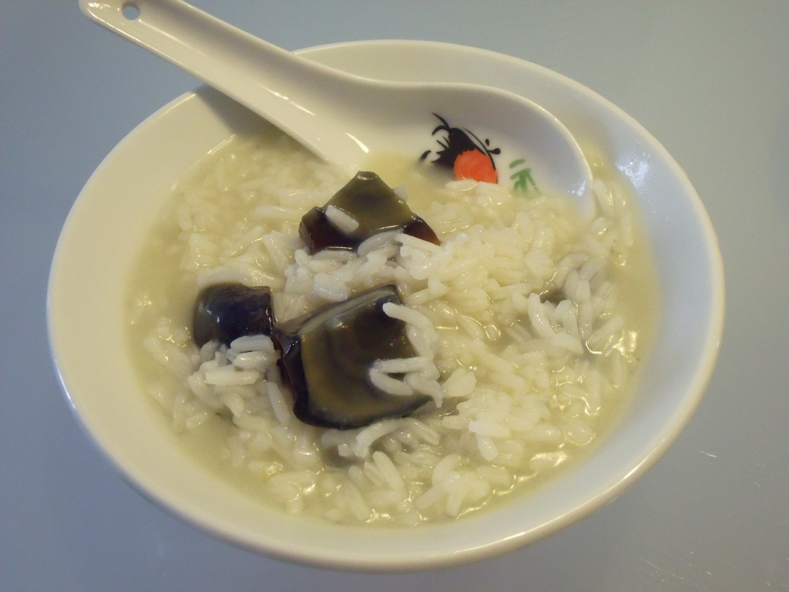 My lunch on 6th December 2011.